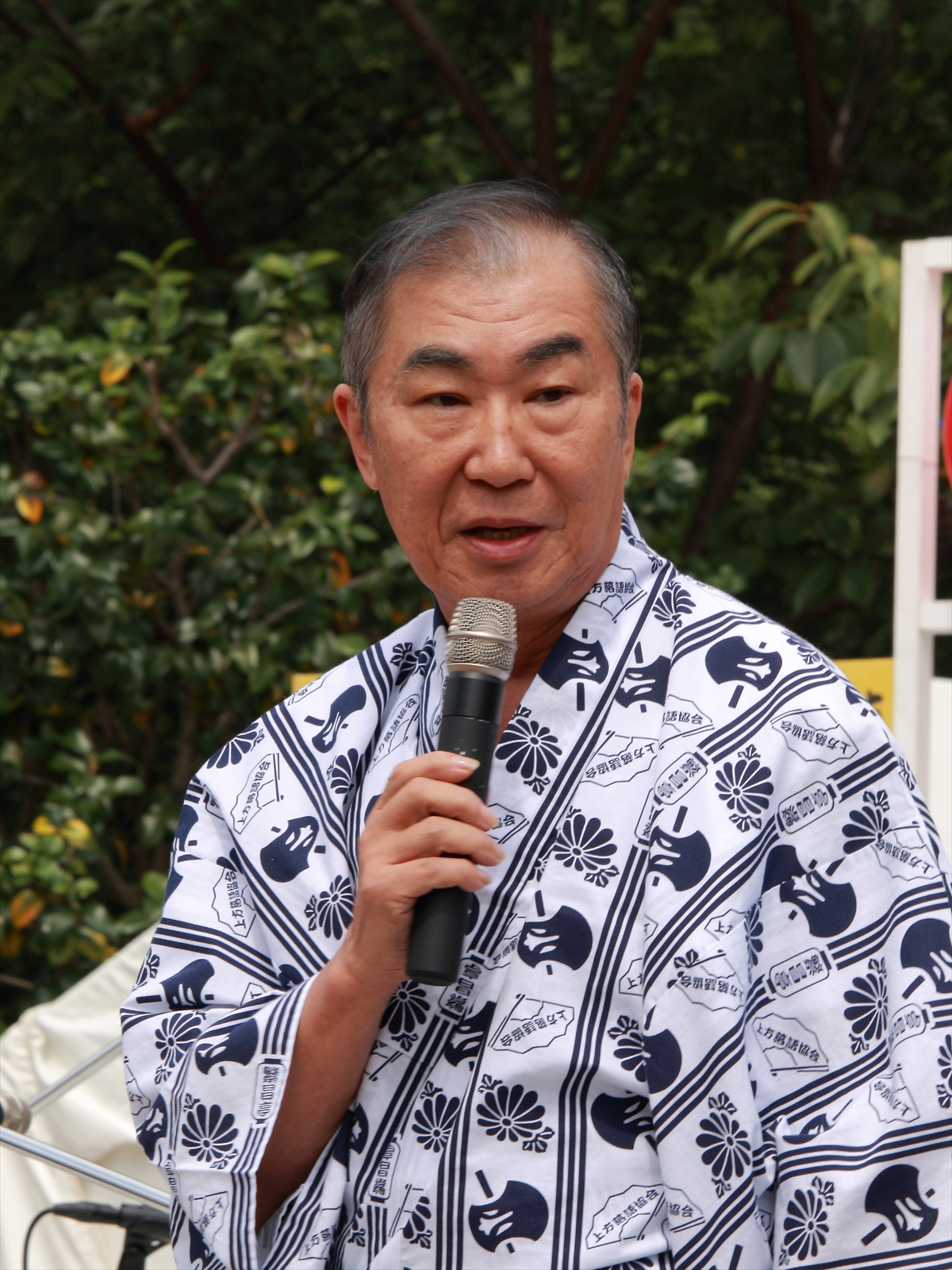 Bunshi Katsura VI (Rakugoka).